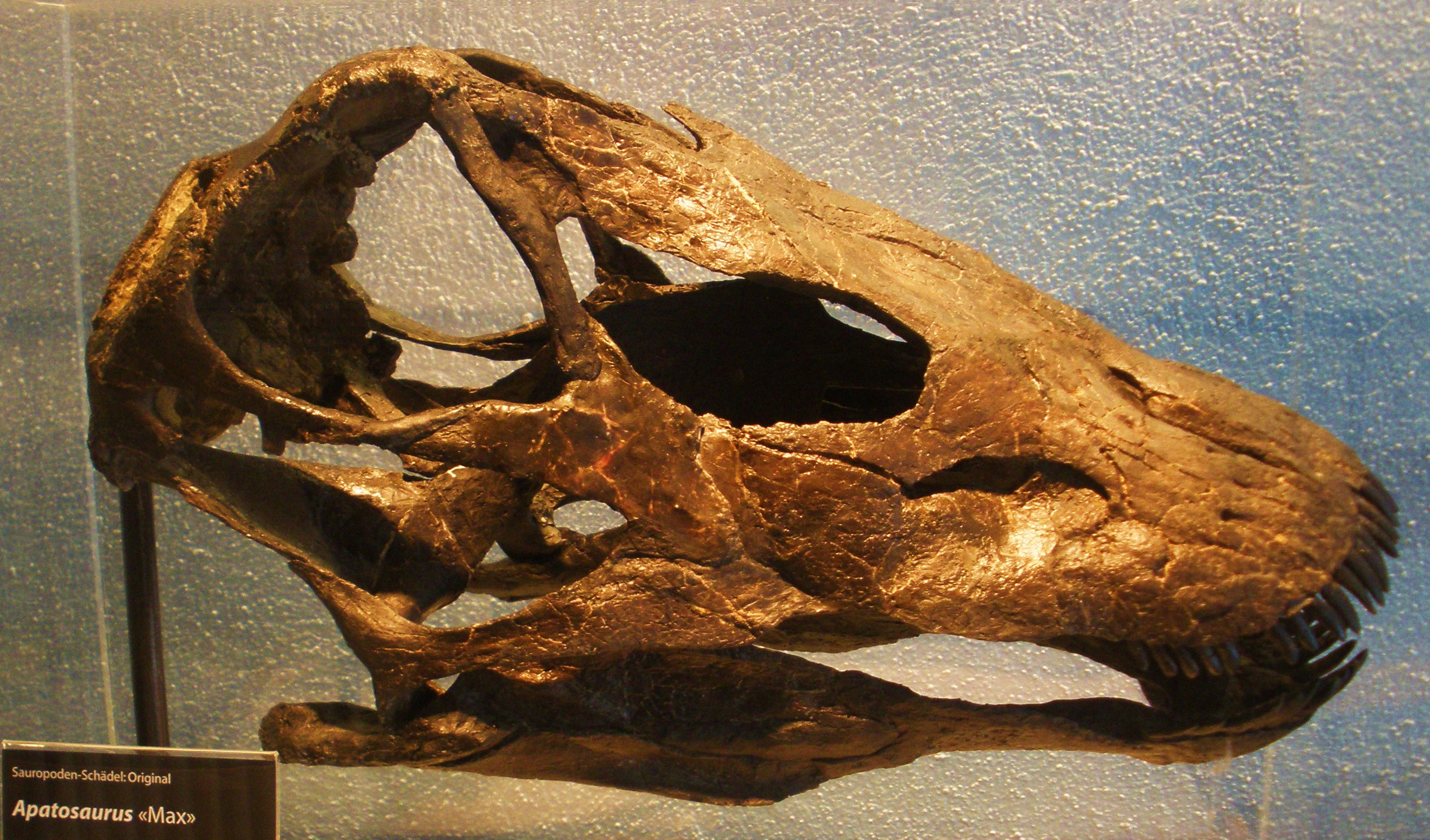 Galeamopus skull SMA 00011 nicknamed "Max" (formerly referred to Apatosaurus).